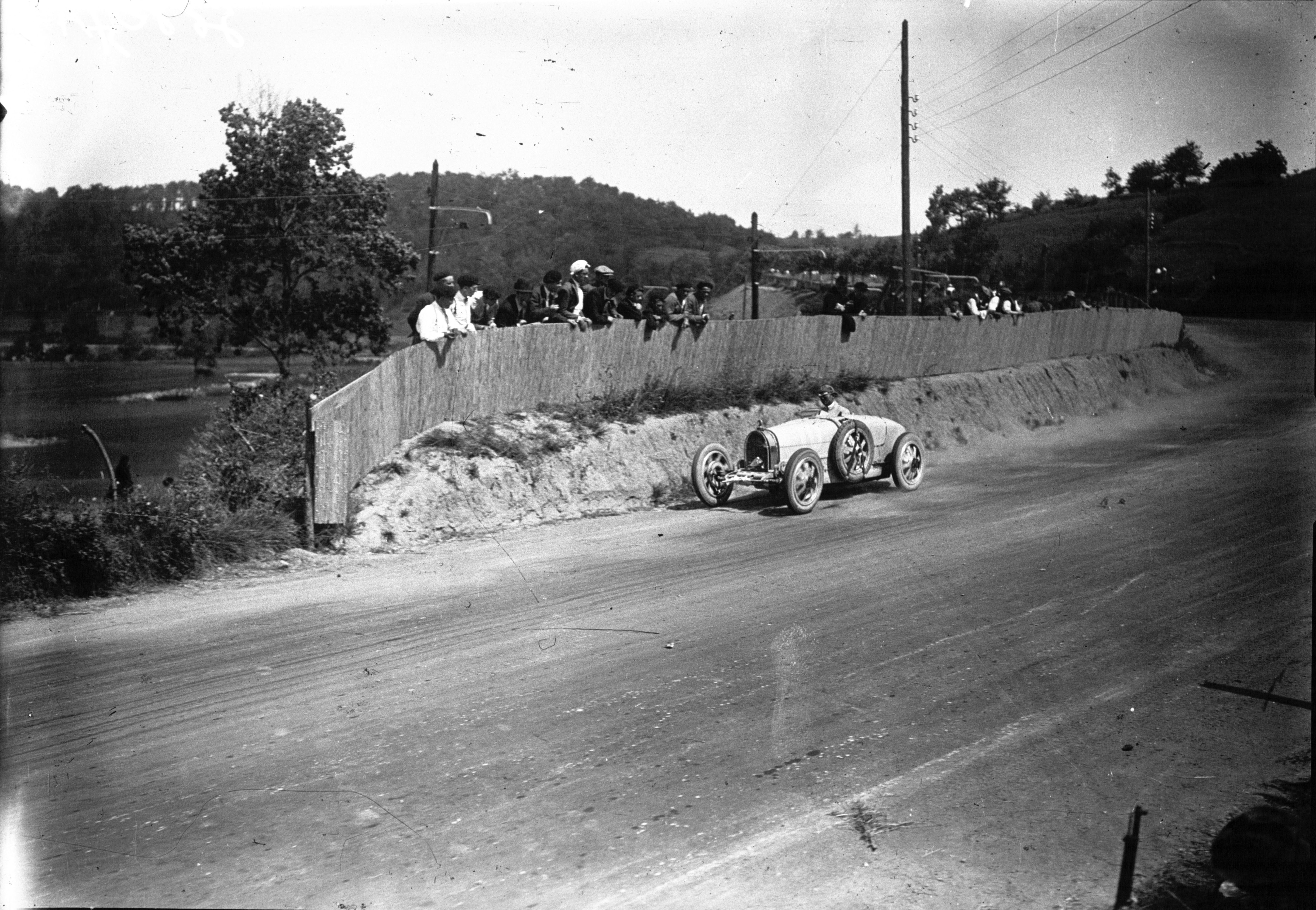 Jules Goux at the 1926 San Sebastián Grand Prix